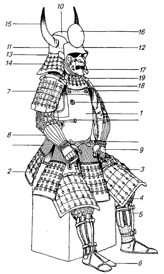 Japanese Armour Diagram: 胴（仏胴） 草摺 佩楯 立挙 臑当（篠臑当） 甲懸 袖（当世袖） 籠手（篠籠手） 手甲（摘手甲） 兜（日根野形頭形兜） 腰巻 眉庇 吹返 しころ（日根野しころ） 立物（水牛の脇立） 立物（日輪の前立） 面頬（目の下頬） 垂 襟廻 NB: japanese names of parts are copied from japanese wiki (^_^)